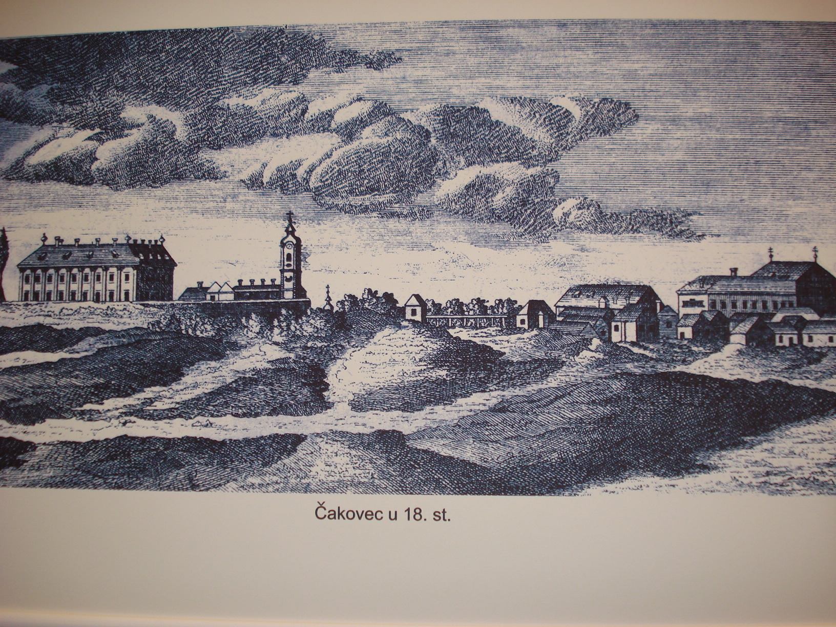 An illustration of 18th century Čakovec, northern Croatia